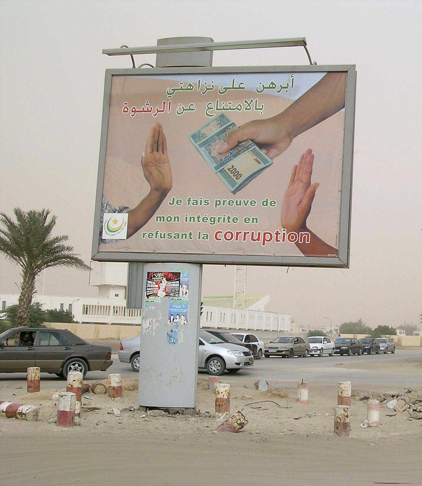 Billboard of a campaign to prevent corruption in Nouakchott (Mauritania)